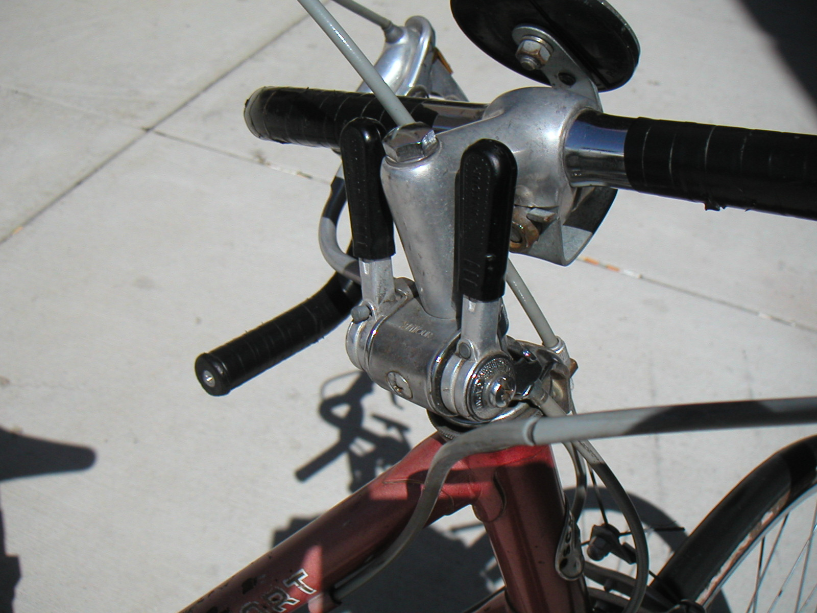 Taken by Andrew Dressel